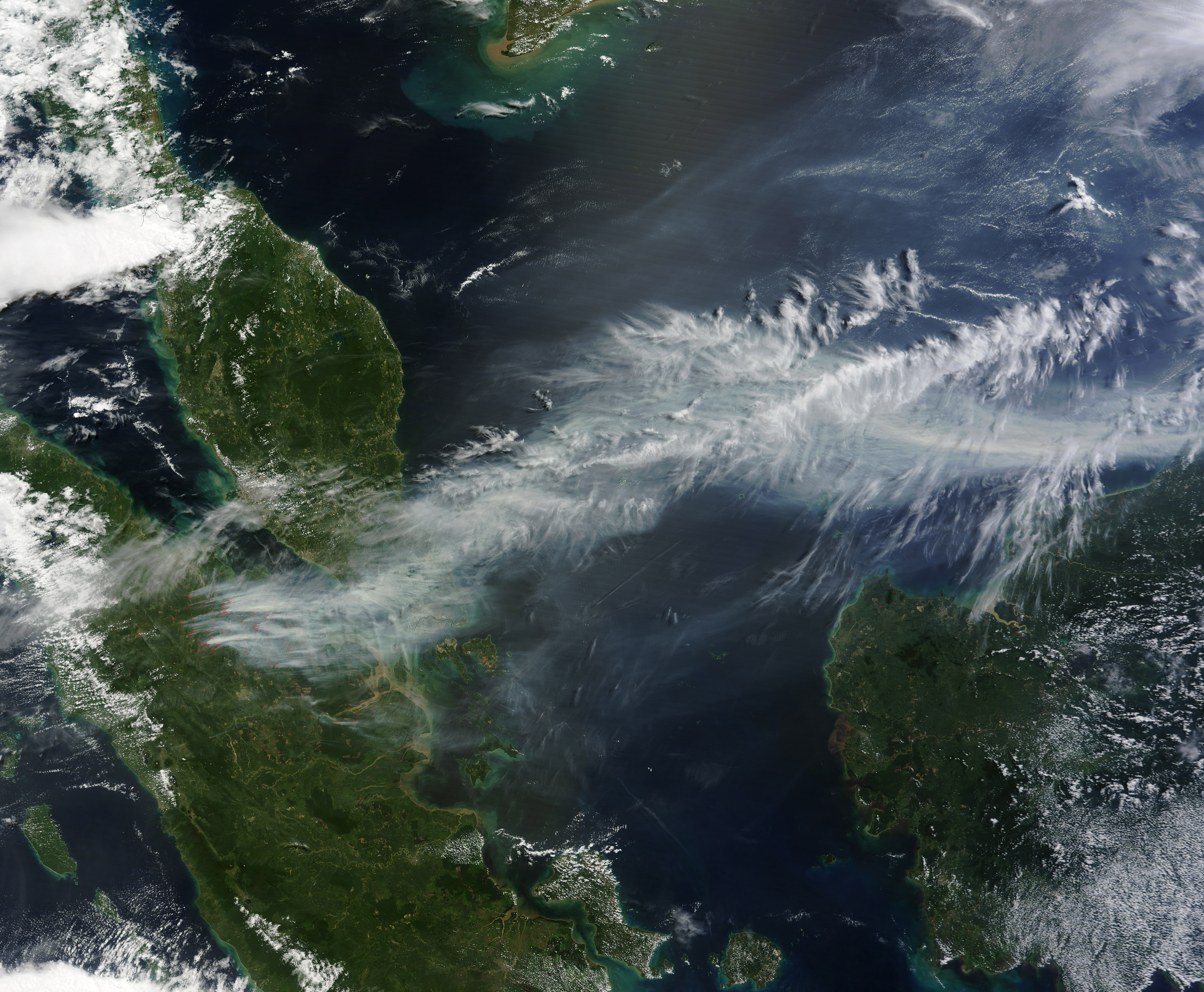 On 19 June 2013, NASA's Aqua satellite captured a striking image of smoke billowing from illegal wildfires on the Indonesian island of Sumatra. The smoke blew east toward southern Malaysia and Singapore, and news media reported that thick clouds of haze had descended on Singapore, pushing pollution levels to record levels. Singapore's primary measure of pollution, the Pollutant Standards Index (PSI)—a uniform measure of key pollutants similar to the Air Quality Index (AQI) used by the United States Environmental Protection Agency—spiked to 371 on the afternoon of 20 June 2013, the highest level ever recorded. The previous record occurred in 1997, when the index hit 226. Health experts consider any level above 300 to be "hazardous" to human health. Levels above 200 are considered "very unhealthy." The image above was captured by the Moderate Resolution Imaging Spectroradiometer (MODIS), an instrument that observes the entire surface of Earth’s every 1 to 2 days. The image was captured during the afternoon at 6:30 UTC (2:30 p.m. local time). Though local laws prohibit it, farmers in Sumatra often burn forests during the dry season to prepare soil for new crops. The BBC reported that Singapore's Prime Minister Lee Hsien Loong warned that the haze could "easily last for several weeks and quite possibly longer until the dry season ends in Sumatra." (Caption by Adam Voiland, edited slightly by Jacklee for the Wikimedia Commons: see [1].)